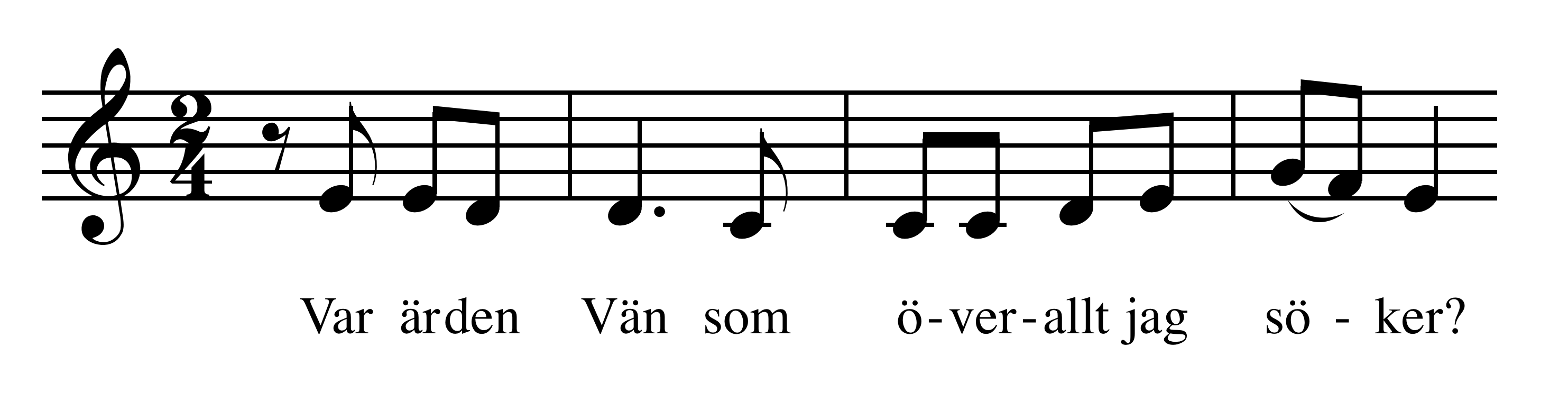 Var_är_den_vän_(Tegnér)